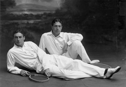 1900 Olympic Games. Paris, France. The Doherty brothers. Hugh Lawrence Doherty who won the gold medal in the singles and doubles competition is at right and brother Reginald Frank who won bronze is at left .